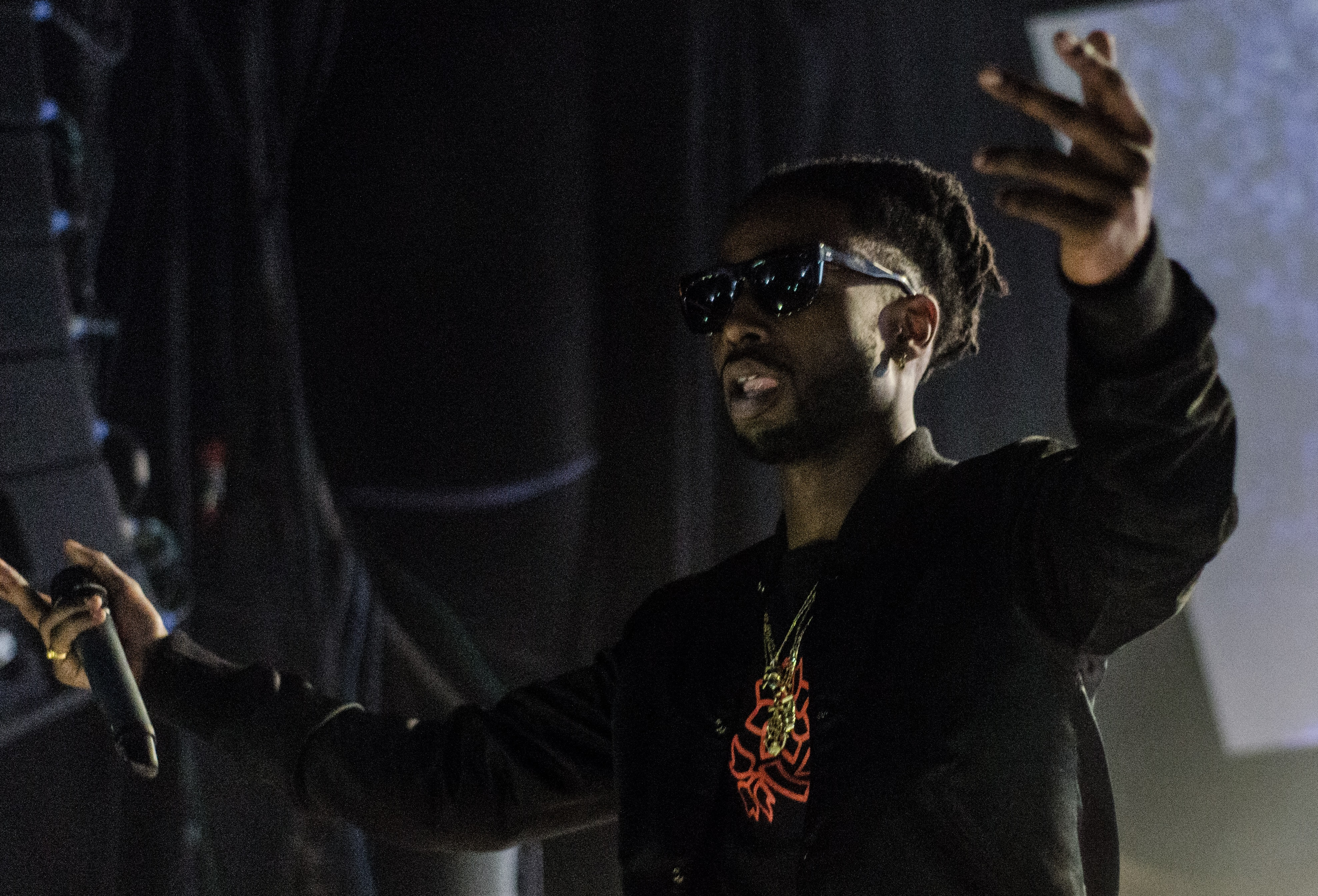 Jazz Cartier performing live at The Phoenix, Toronto on February 6th, 2016.